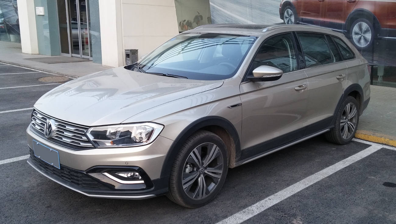 Volkswagen C-Trek photographed in Changchun, Jilin province, China.